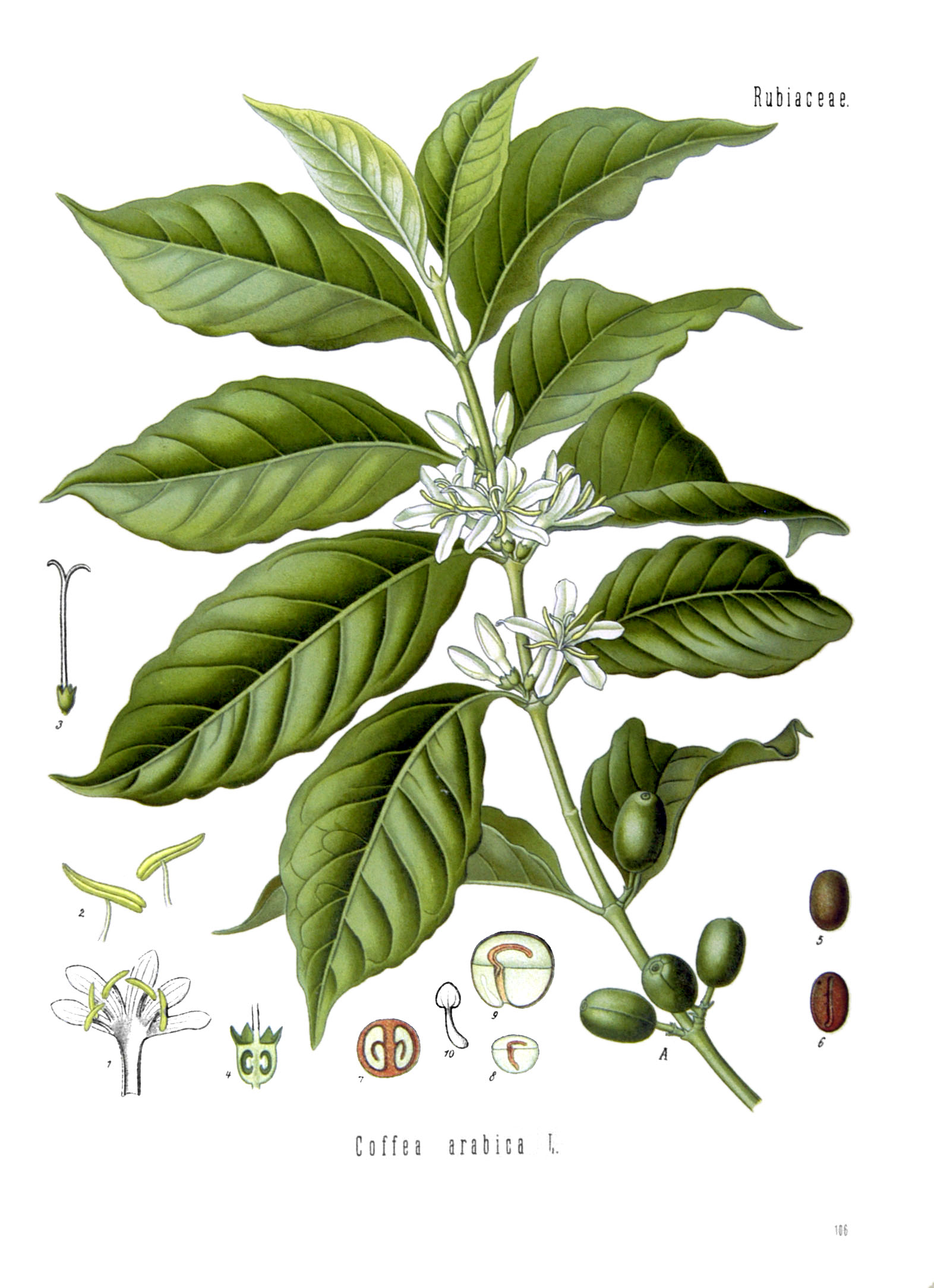 Illustration of COFFEA arabica L. 106 (Coffea arabica L., Arabian coffee) Köhler's Medizinal-Pflanzen in naturgetreuen Abbildungen mit kurz erläuterndem Texte : Atlas zur Pharmacopoea germanica